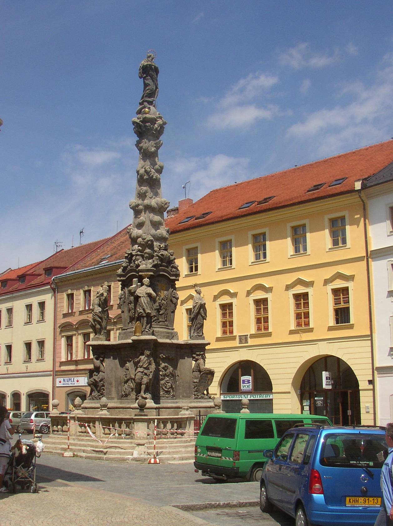 Kutná Hora, Czech Republic.